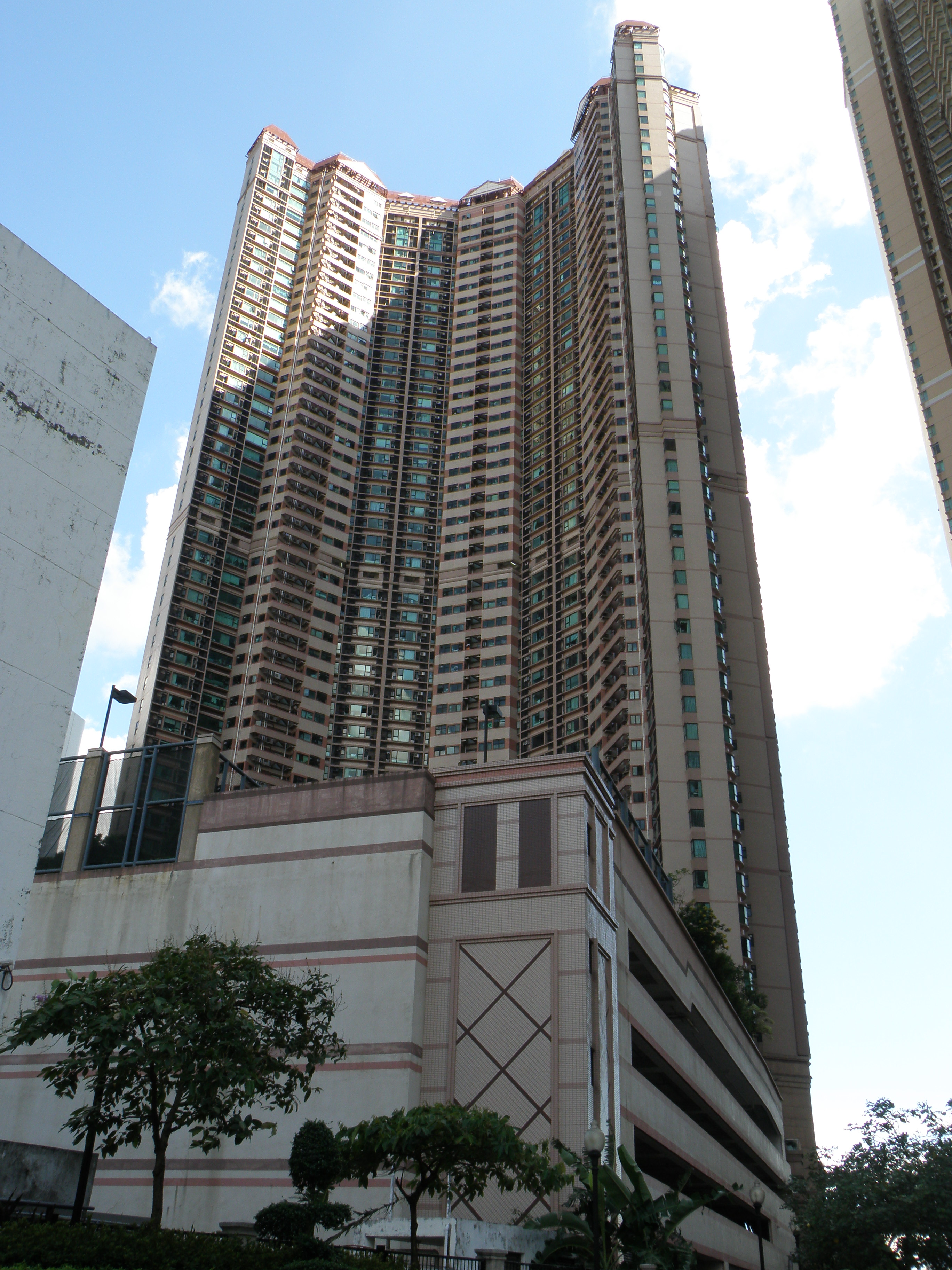 Ocean Pointe in Sham Tseng, Hong Kong.